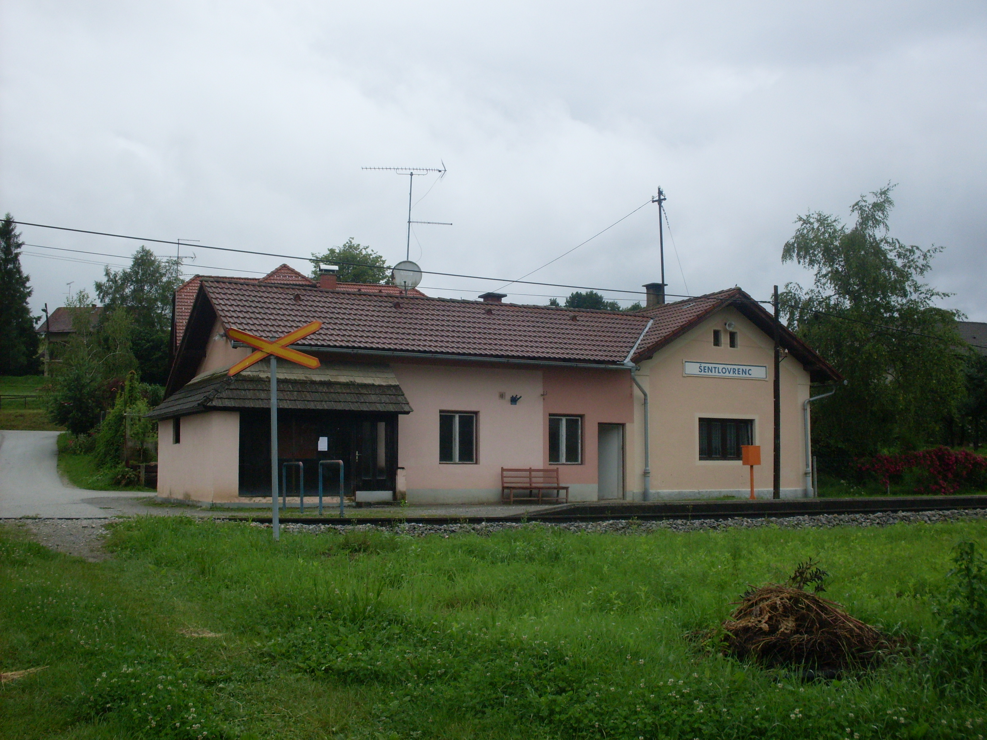 Railway halt Šentlovrenc, located in Dolnje Prapreče